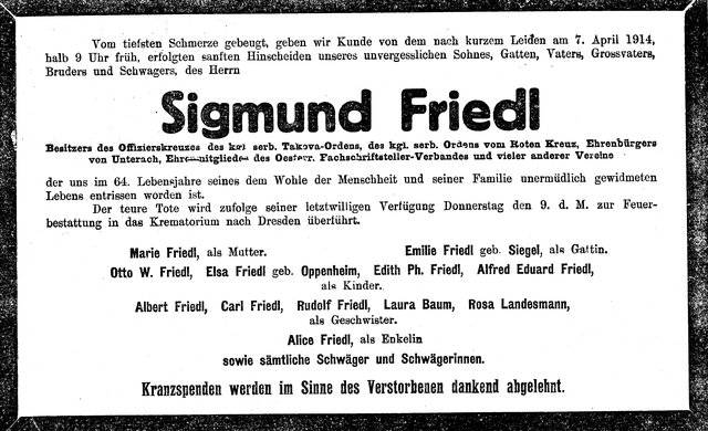 Obituary of Sigmund Friedl announcing that he would be cremated at Dresden Crematorium on April 9, 1914